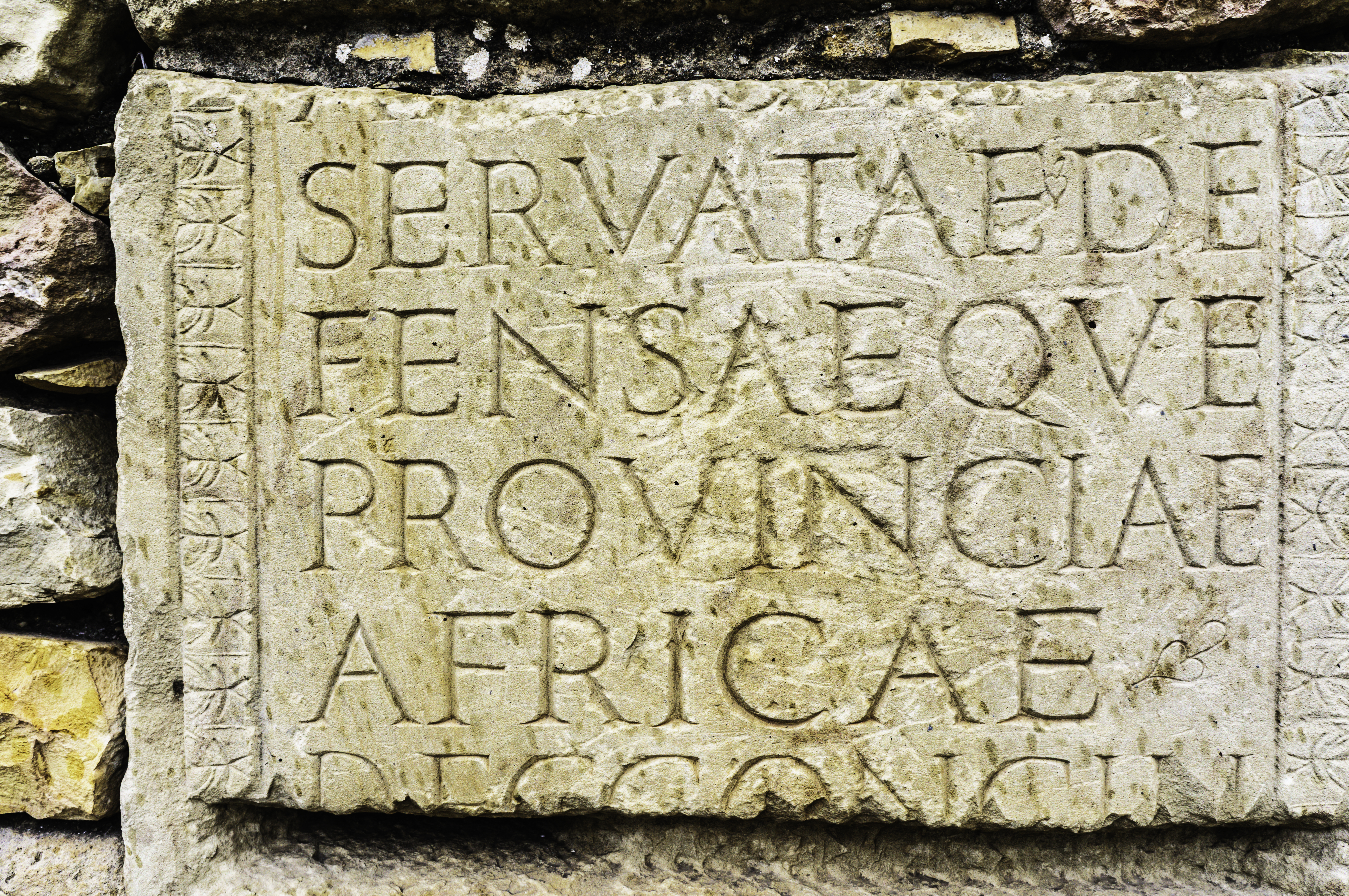 Thagaste (near Souk Ahras)